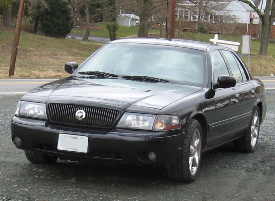 2003-2004 Mercury Maruader photographed in USA.